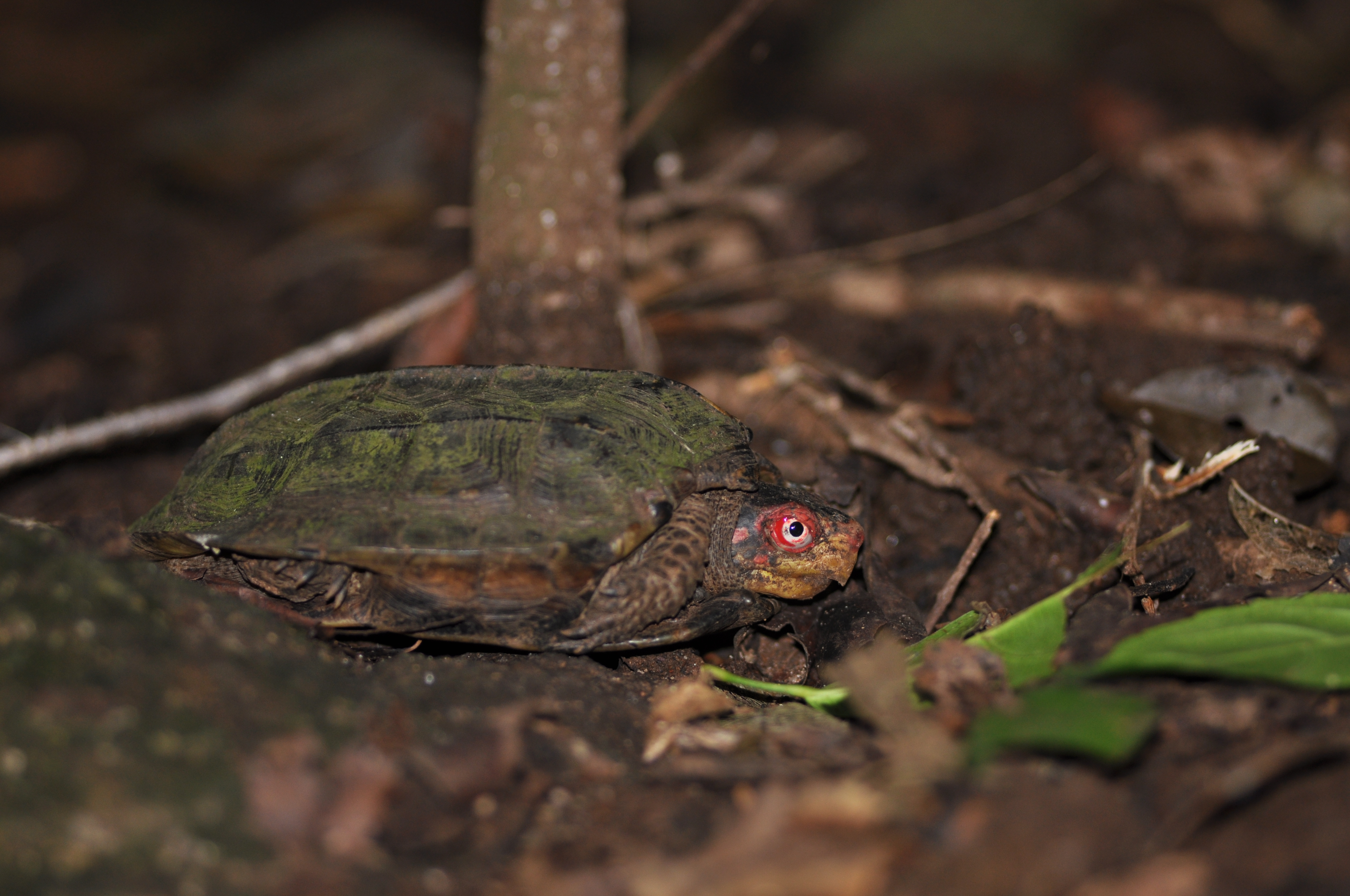 Cane turtle on the forest floor in a rainforest in the Anamalai Tiger Reserve, Tamil Nadu.